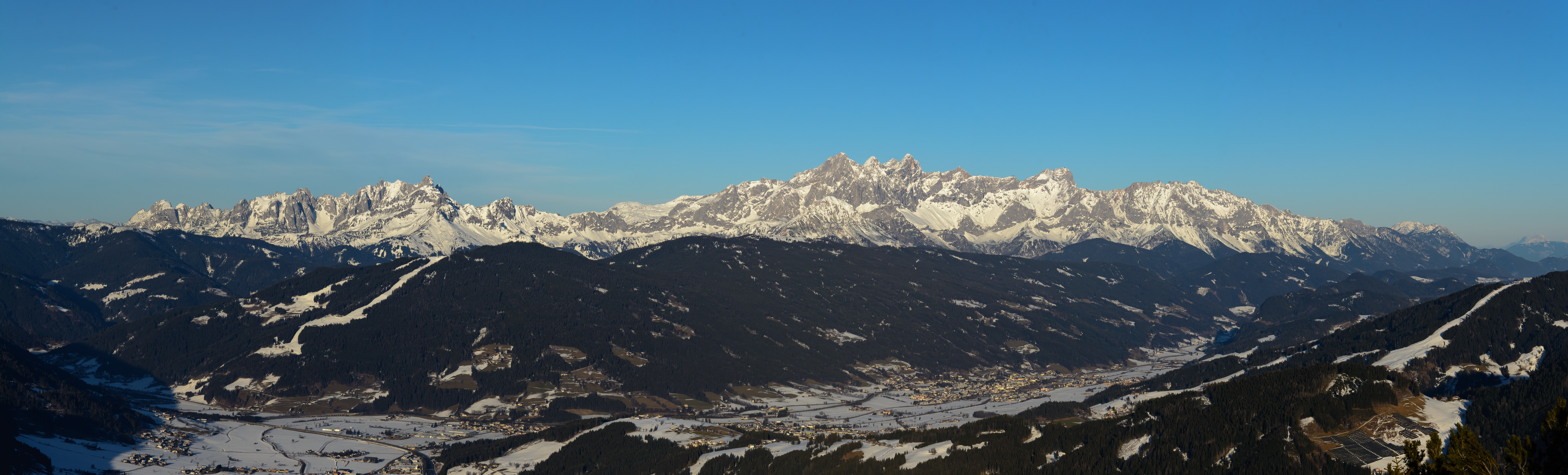 Panoramic view northwards from Grießenkareck mountain near Wagrain, federal state of Salzburg, Austria